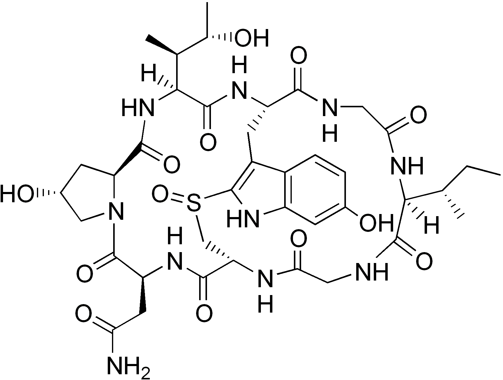 chemical structure of the amatoxin gamma-amanitin